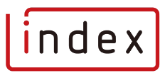 Logo of Index Corporation since April 2014.